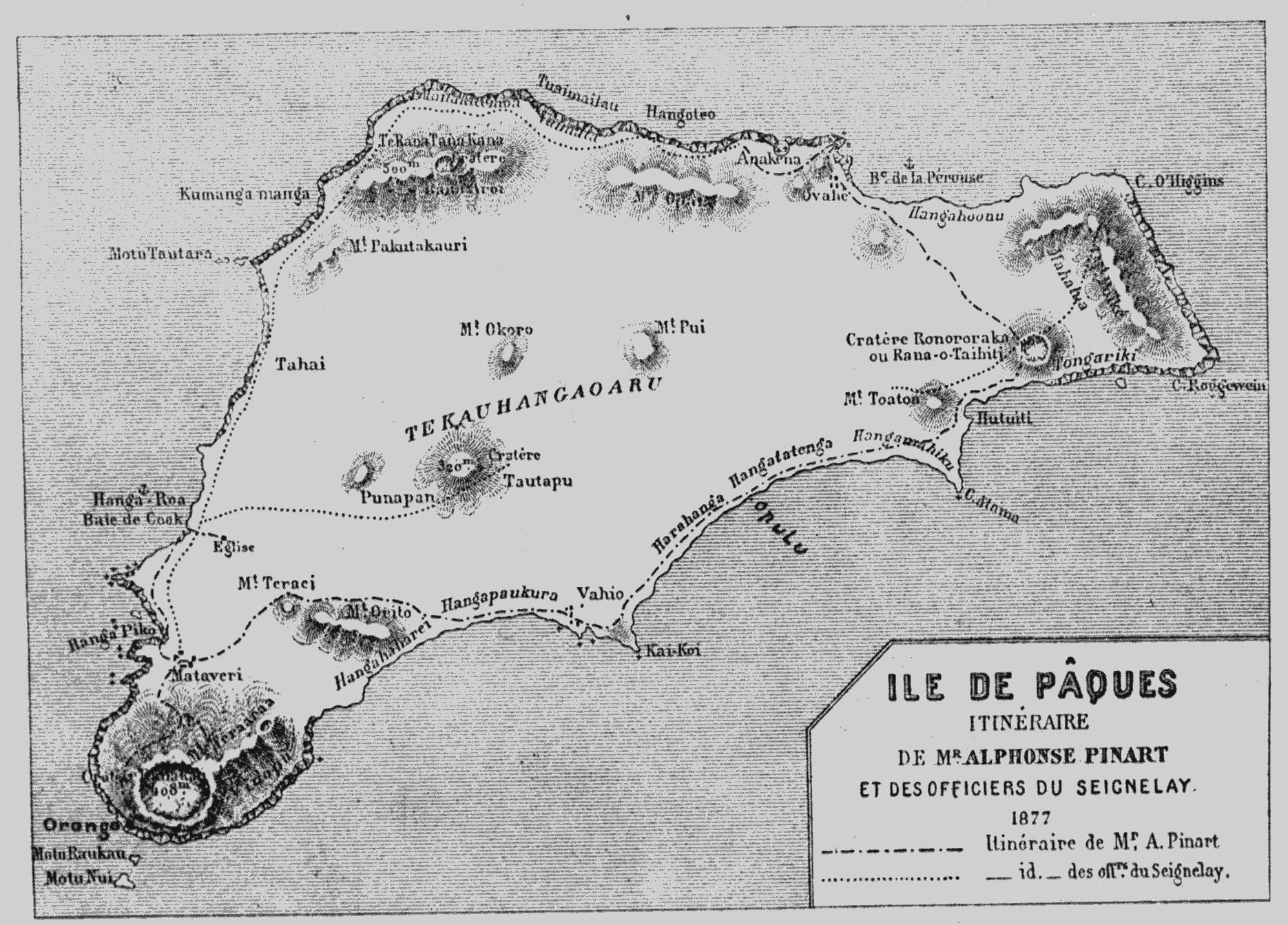 Map of Easter Island by Pinart in a report that was published in A Trip around the World. This map was based by Pinart on the map drawn by the officers of the O’Higgins, in January 1870, of which a copy can be found in the Tahiti Museum.